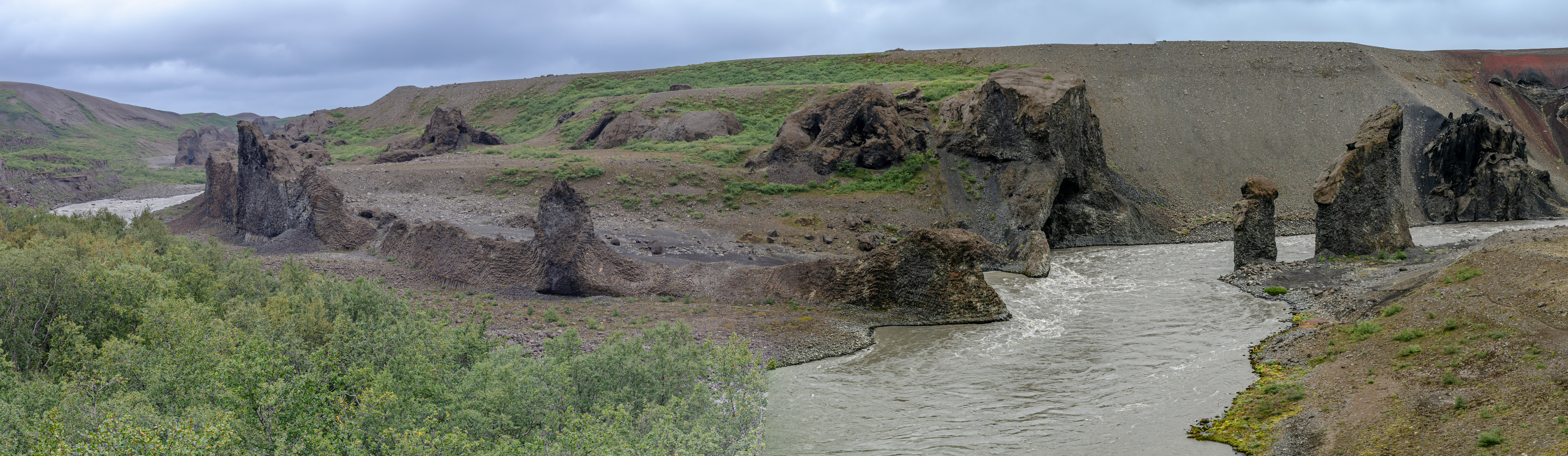 Rock formations in Vesturdalur, Northeastern Iceland NOTE: This image is a panorama consisting of 6 frames that were merged or stitched in Hugin. As a result, this image necessarily underwent some form of digital manipulation. These manipulations may include blending, blurring, cloning, and color and perspective adjustments. As a result of these adjustments, the image content may be slightly different than reality at the points where multiple images were combined. This manipulation is often required due to lens, perspective, and parallax distortions.